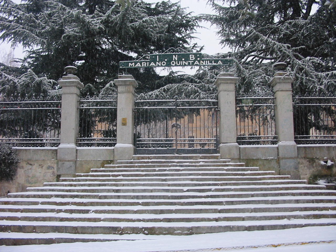 Entrance gate, I.E.S. Mariano Quintanilla, Segovia, Castile and León, Spain